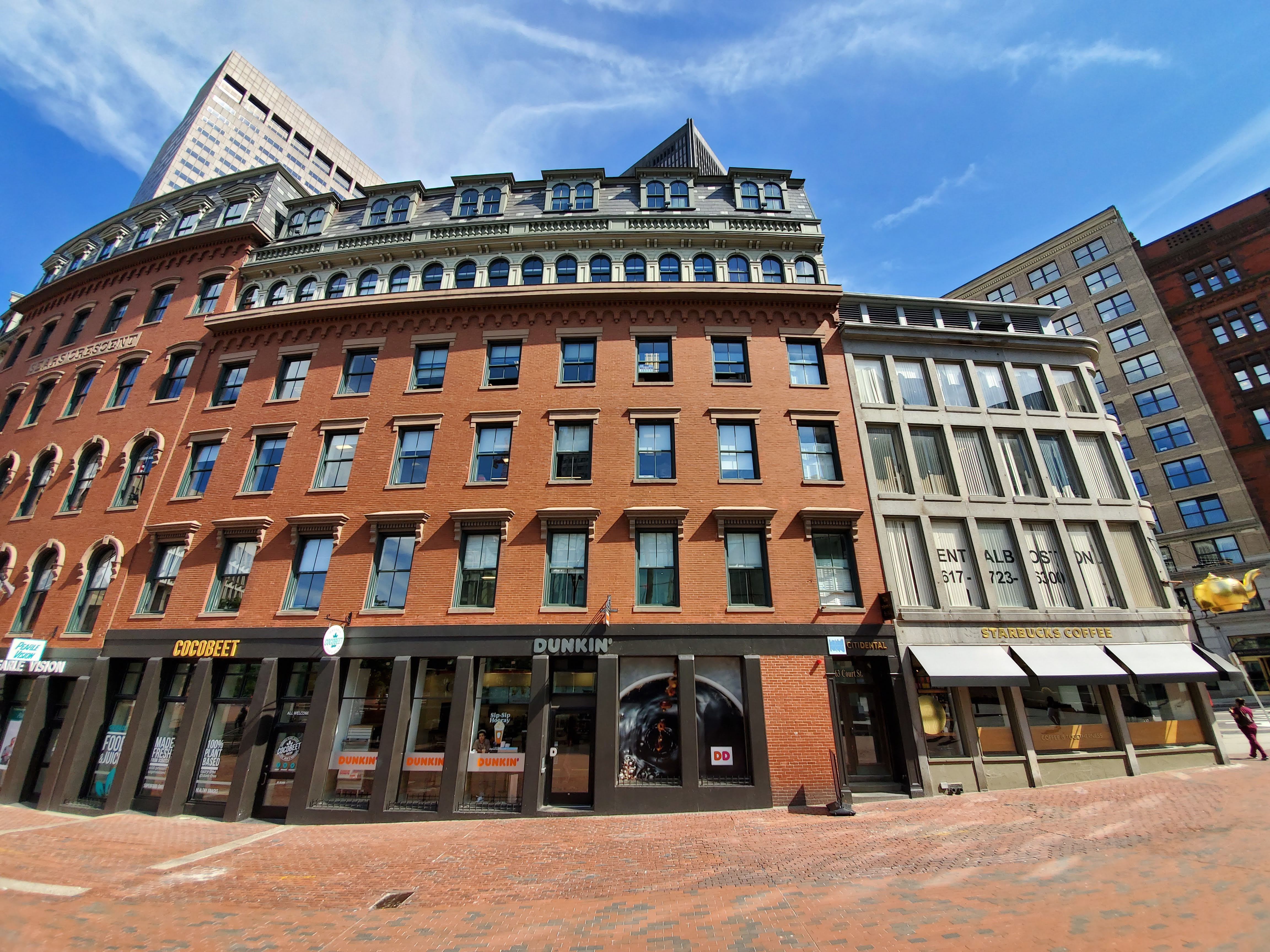 Sears Crescent (at left) and Sears Block (at right) face City Hall Plaza in Boston